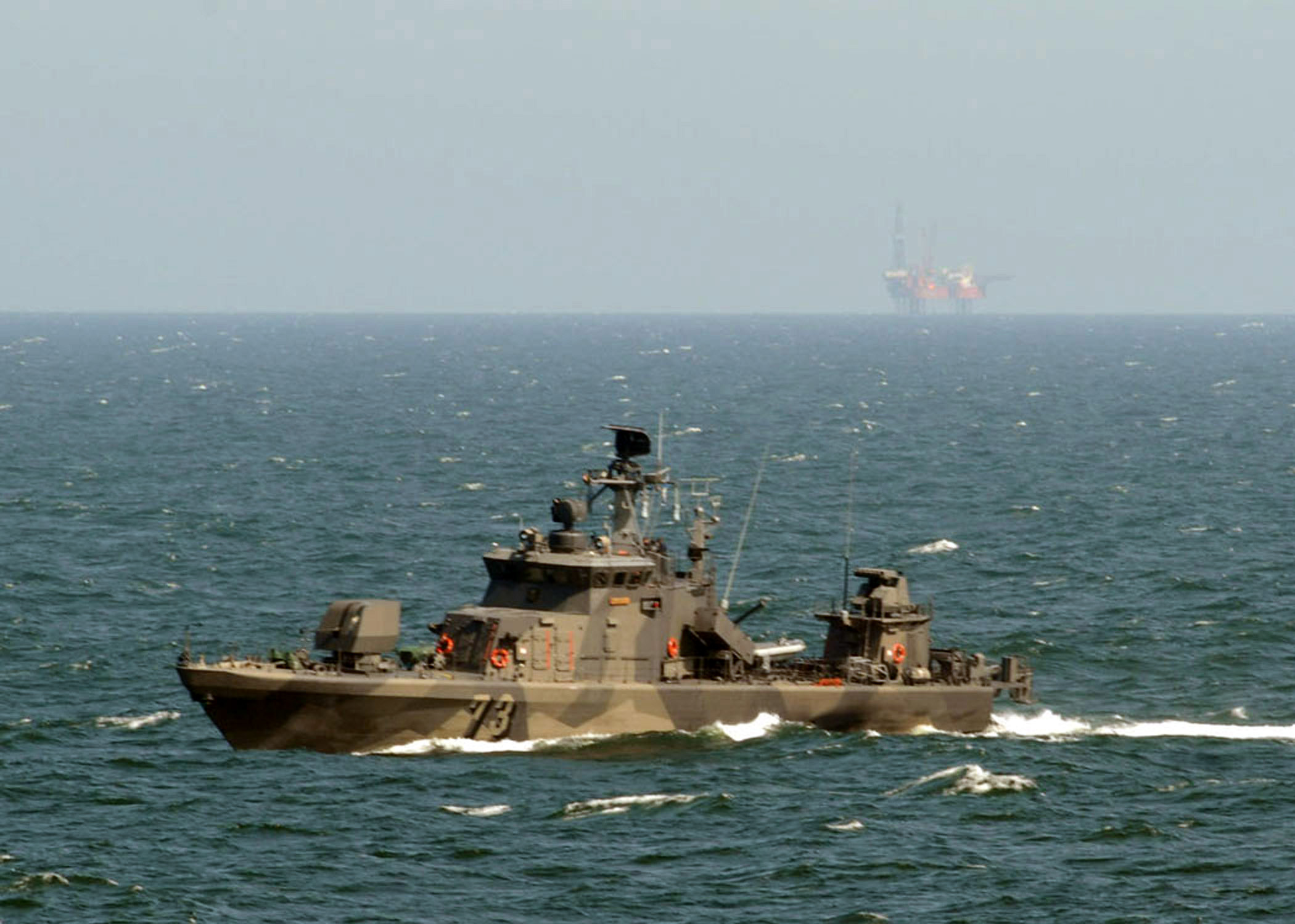 The Finnish Rauma-class missile boat FNS Naantali (PTG 73) steams through the Baltic Sea during exercises supporting Baltic Operations (BALTOPS). BALTOPS is an annual international exercise involving 13 countries.